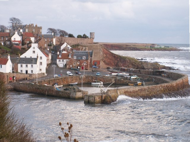 Crail harbour in a winter blow. An East wind brings in the breakers.